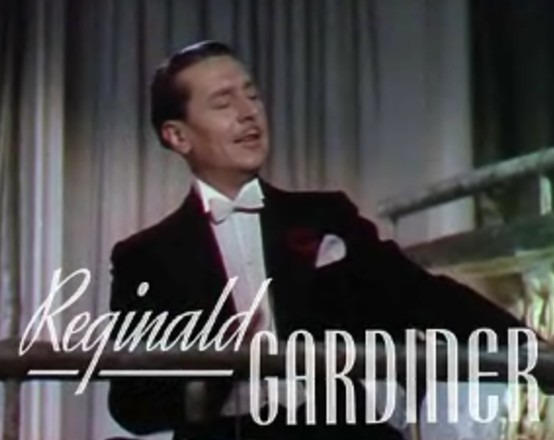 Cropped screenshot of Reginald Gardiner from the trailer for the film Sweethearts